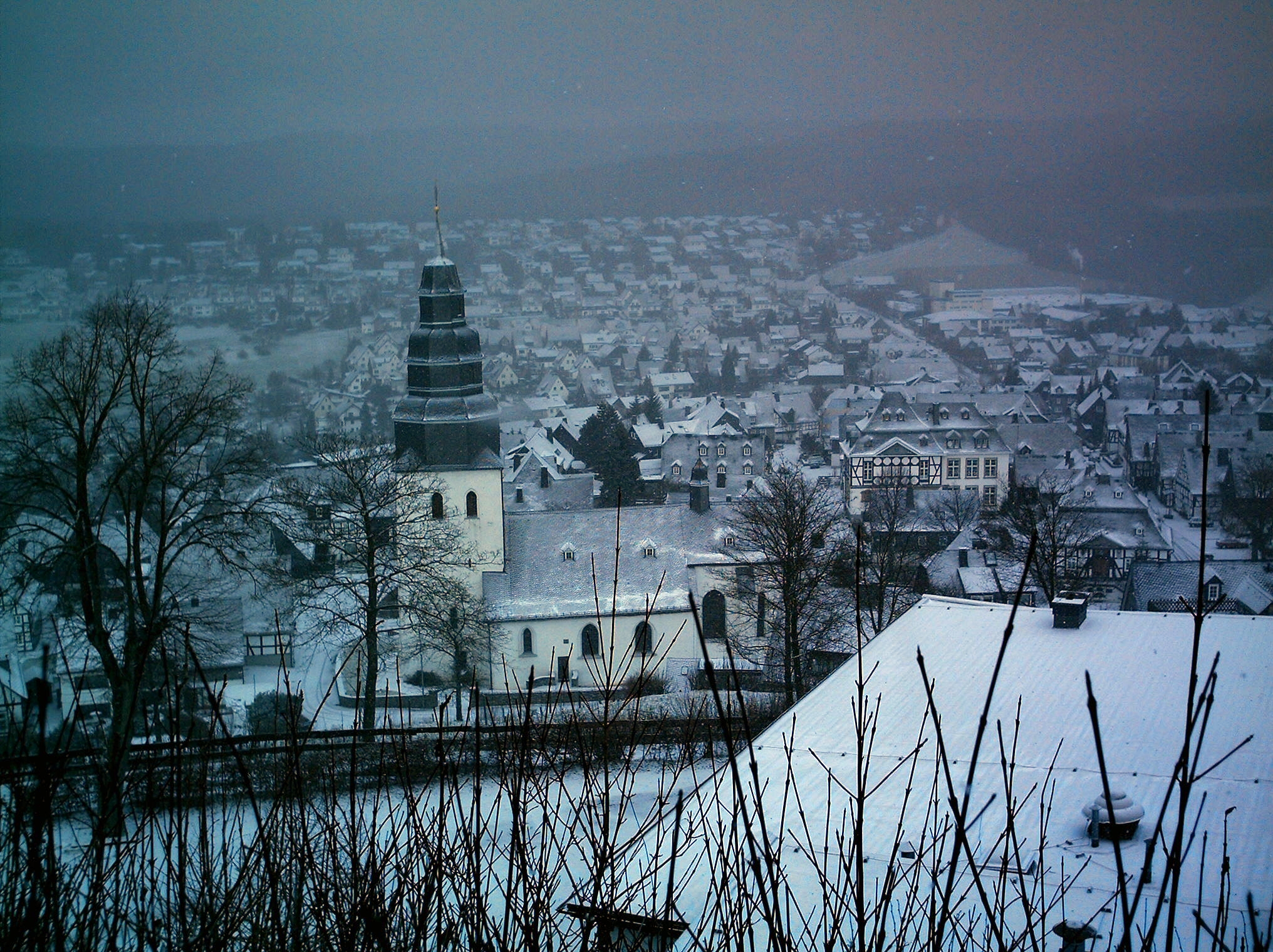 view on Meschede-Eversberg from the castle ruin